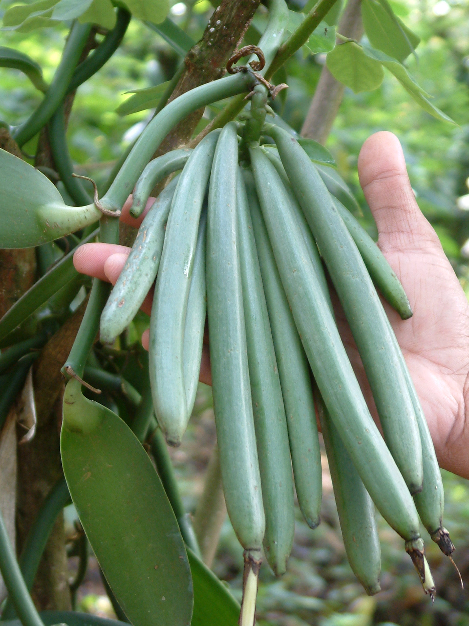 Vanilla beans grown in the plantations of Kerala, India.